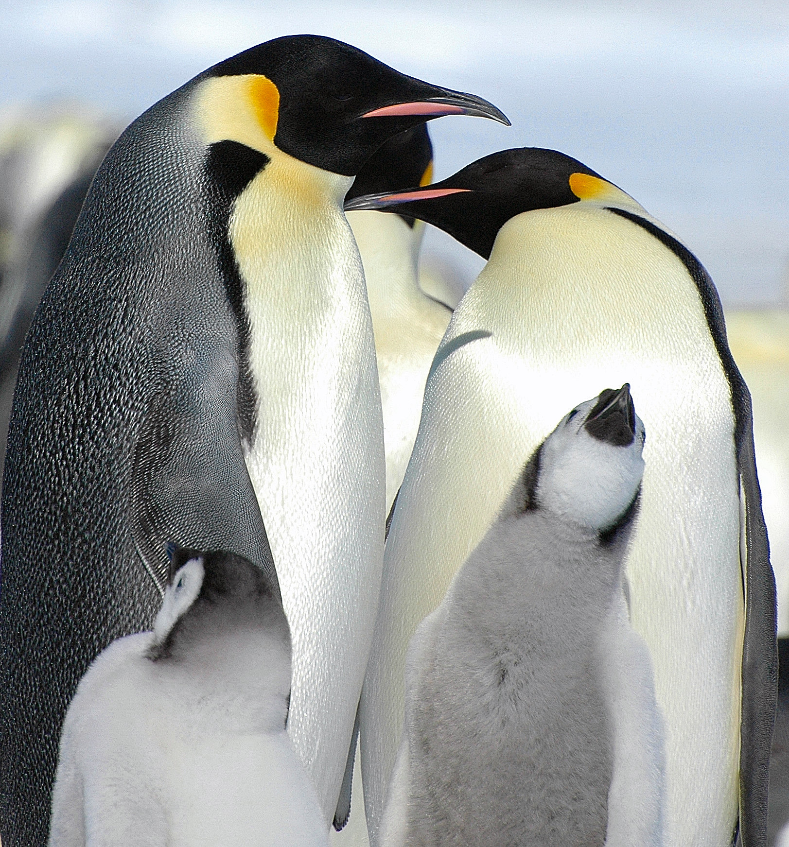 Emperor penguin on Snow Hill